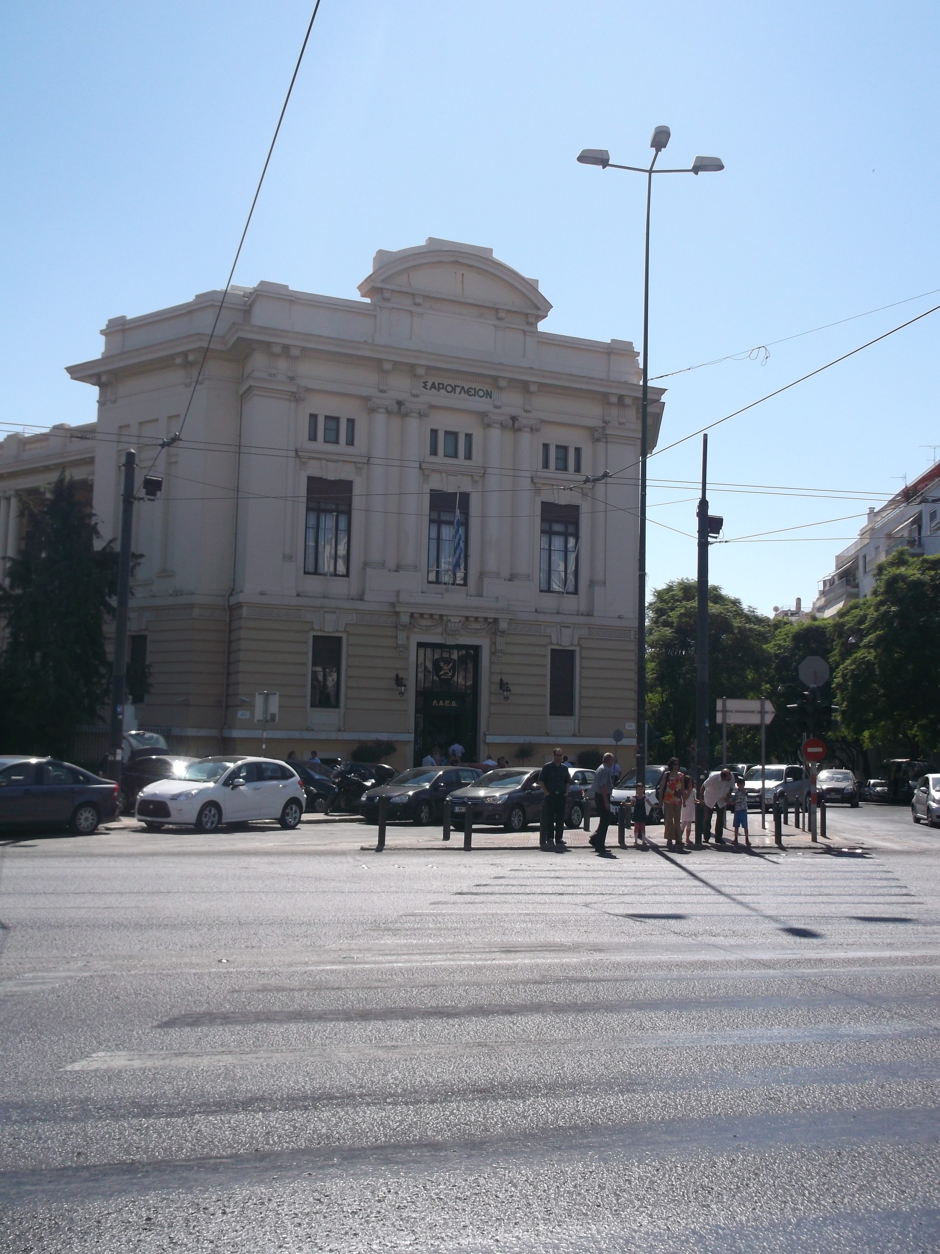 Saroglion. Athens